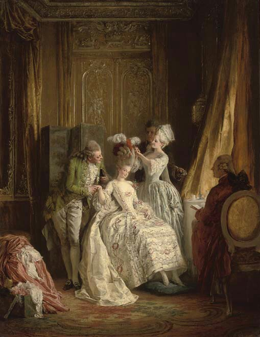 Marie Antoinette